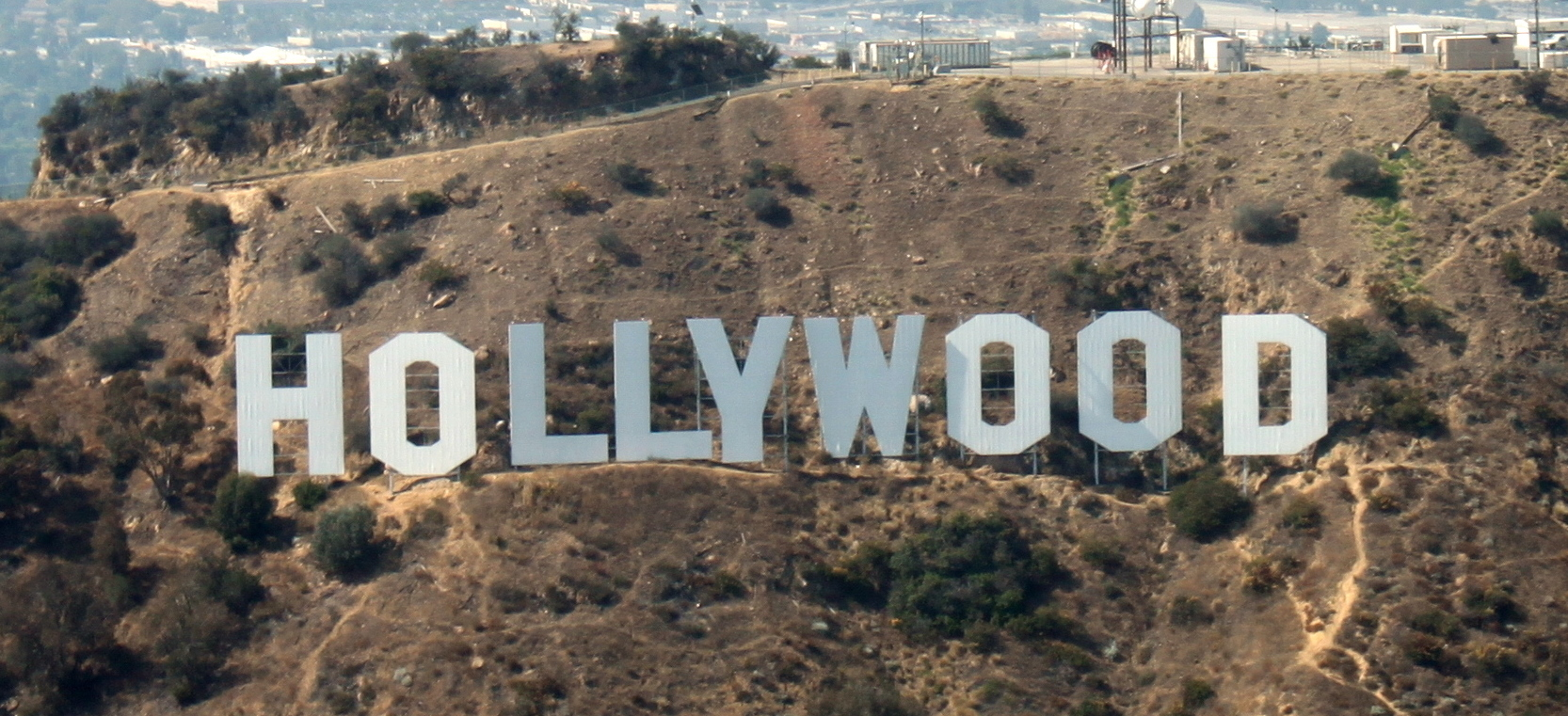 The Hollywood Sign, shot from an aircraft at about 1,500' MSL.